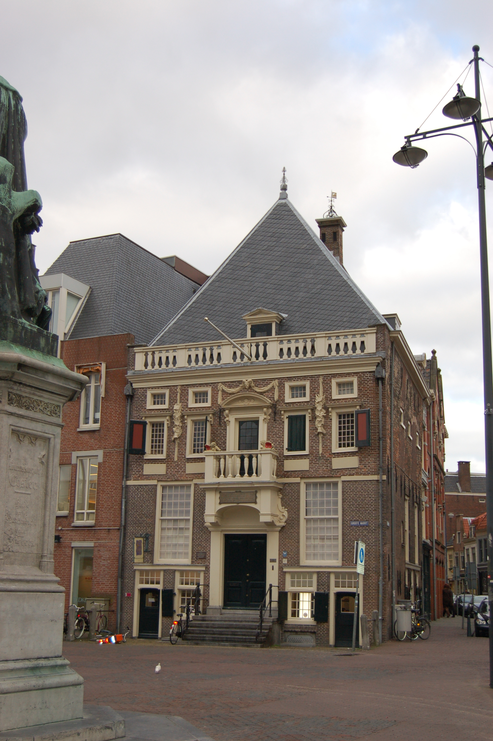 Hoofdwacht, on the northside of the Grote Markt, Haarlem, the Netherlands